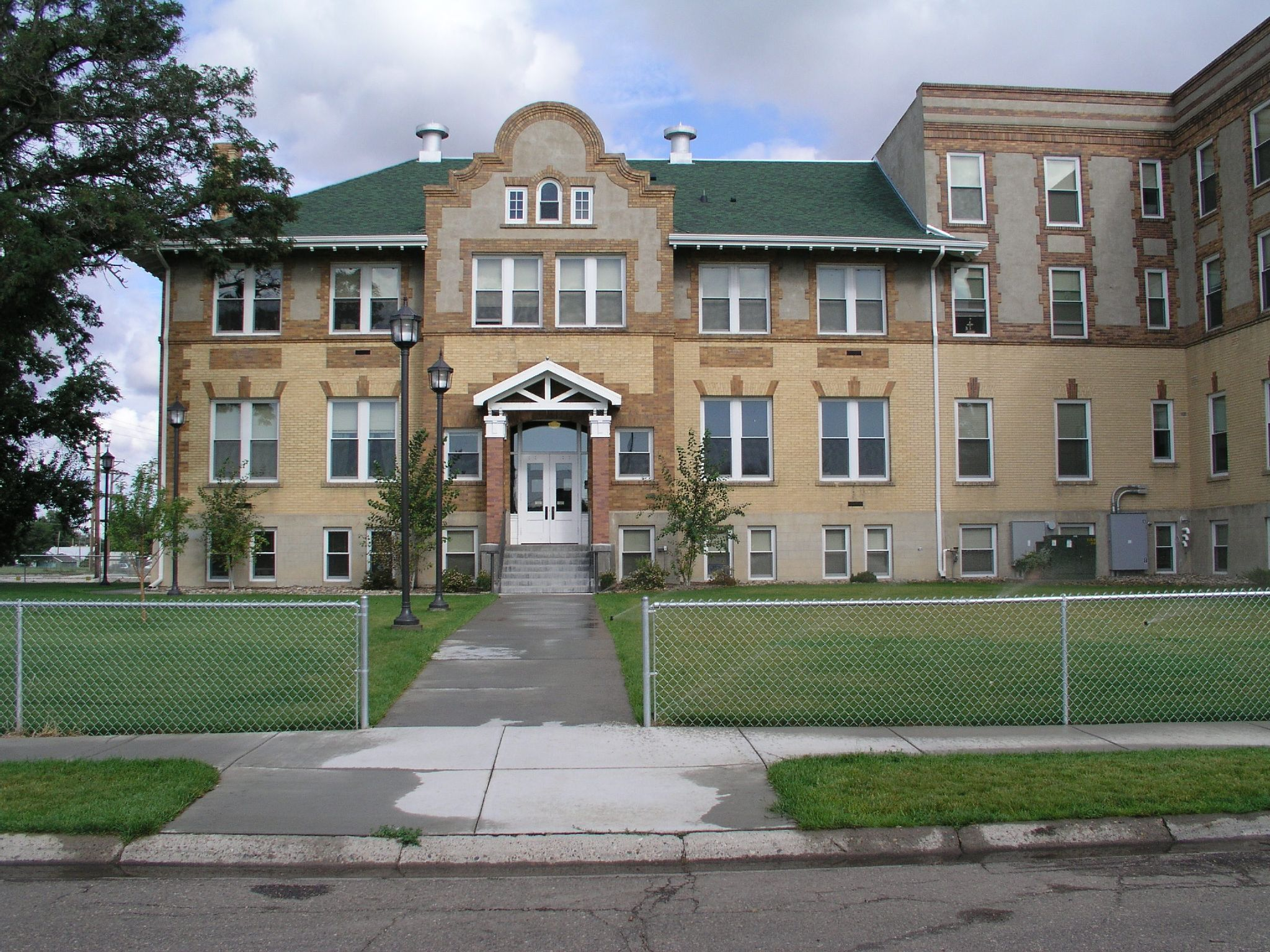 The Cornerstone Apartments, 310 North Jordan Ave., Miles City, Montana. The green-roofed portion of the building was originally built in 1910. The addition on the right side was built in 1930. This was originally the Holy Rosary Hospital. Today it is an apartment building operated by the Miles City Housing Authority.